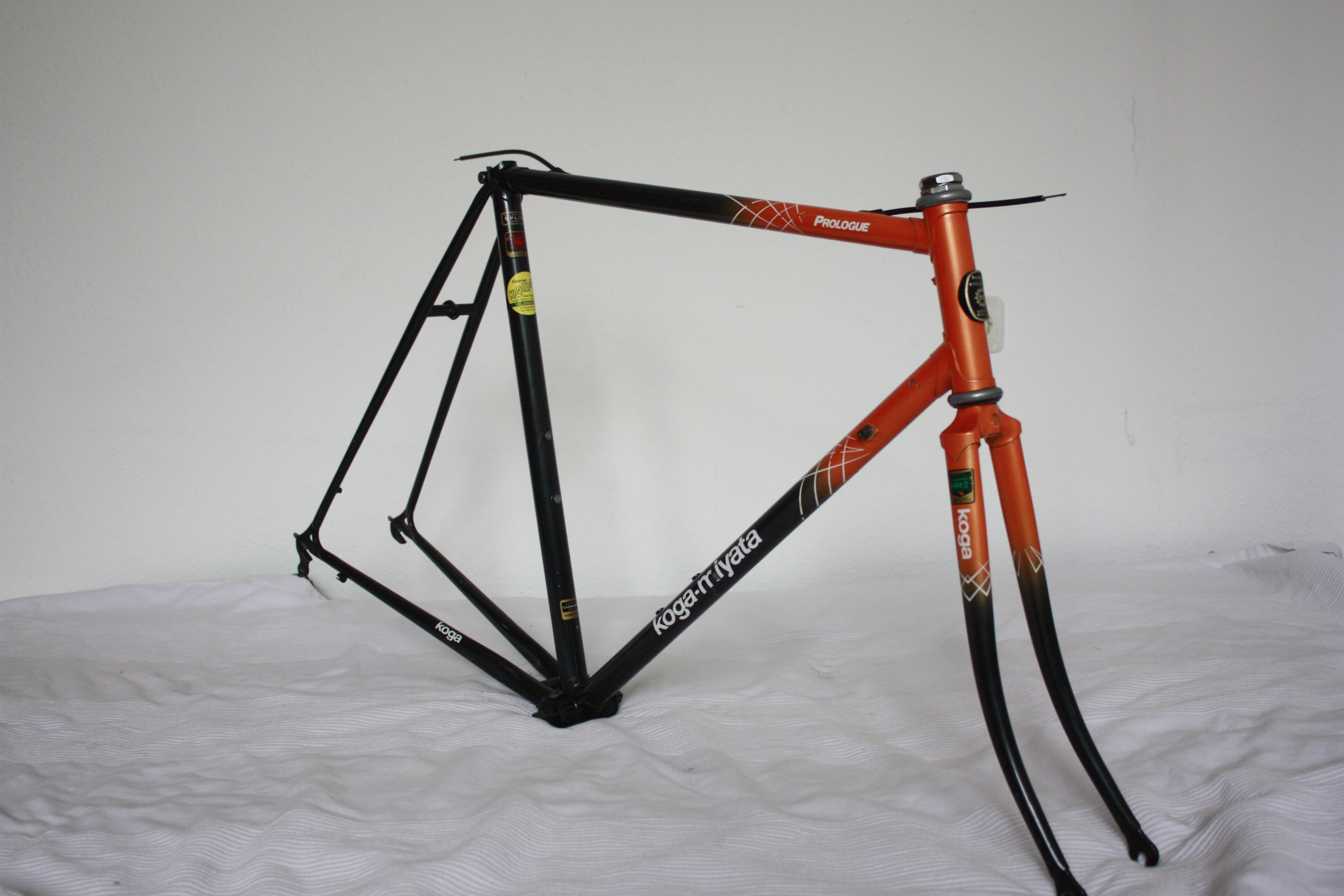 Koga Miyata road bike frame